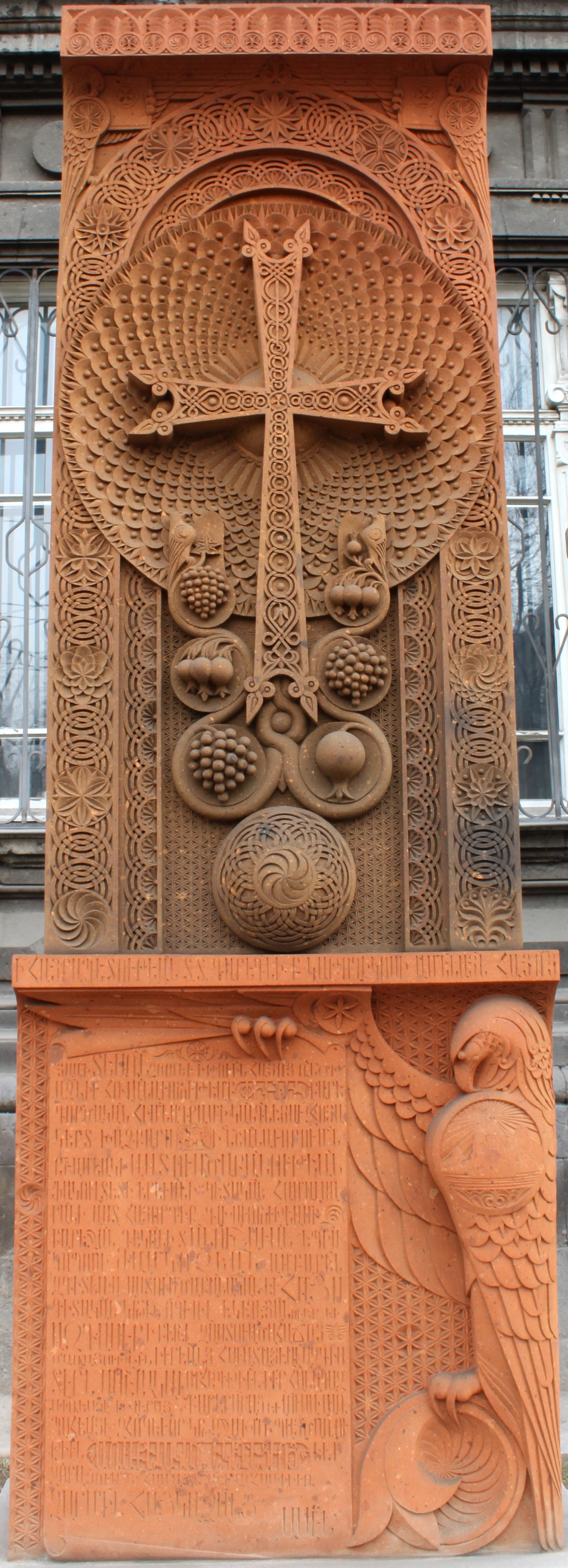 An Armenian cross-stone (khachkar) near the Yerevan State Medical University. On Abovyan Street.